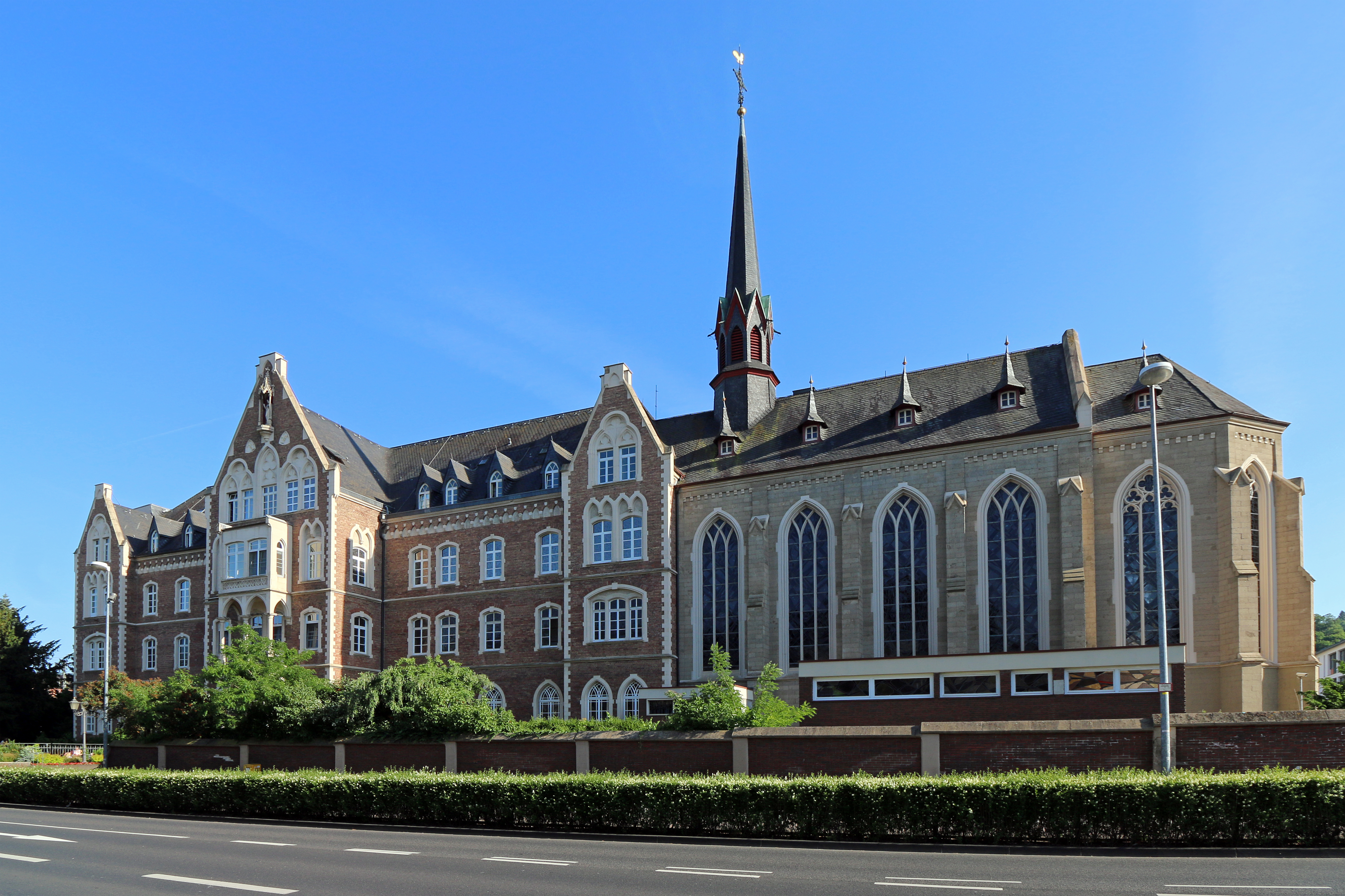 Hospital Brüderhaus St. Josef in Koblenz